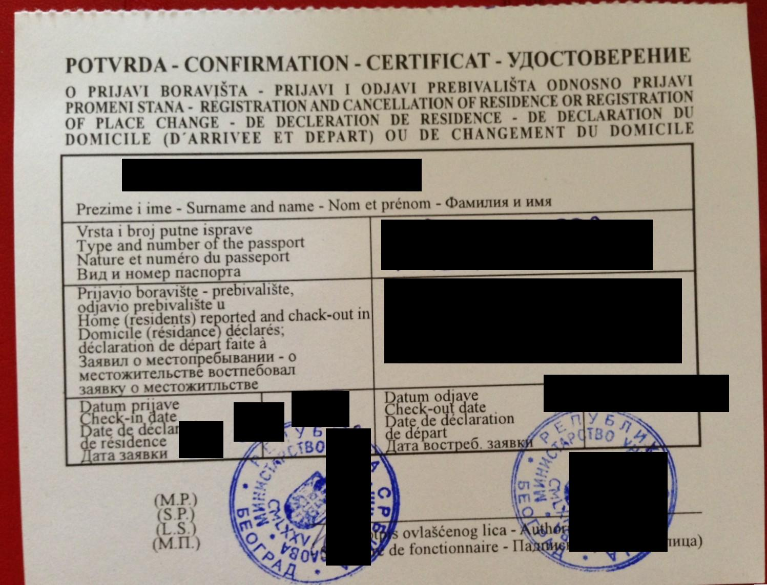 Serbian Ministry of the Interior, Registration and cancellation of residence or registration of place change form